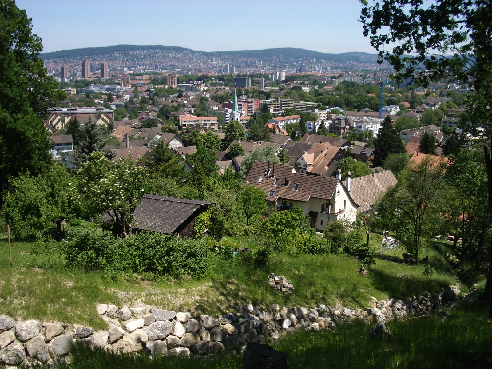 Albisrieden ZH, Switzerland